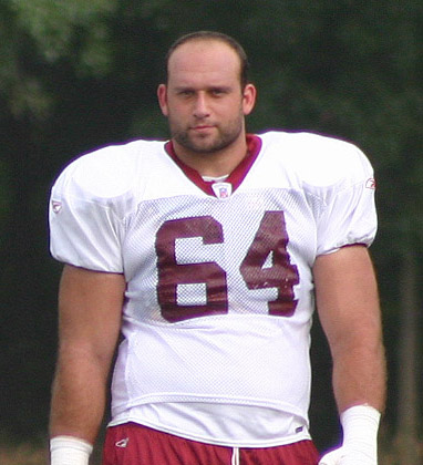 Lennie Friedman, professional football player, at training camp for the Washington Redskins.